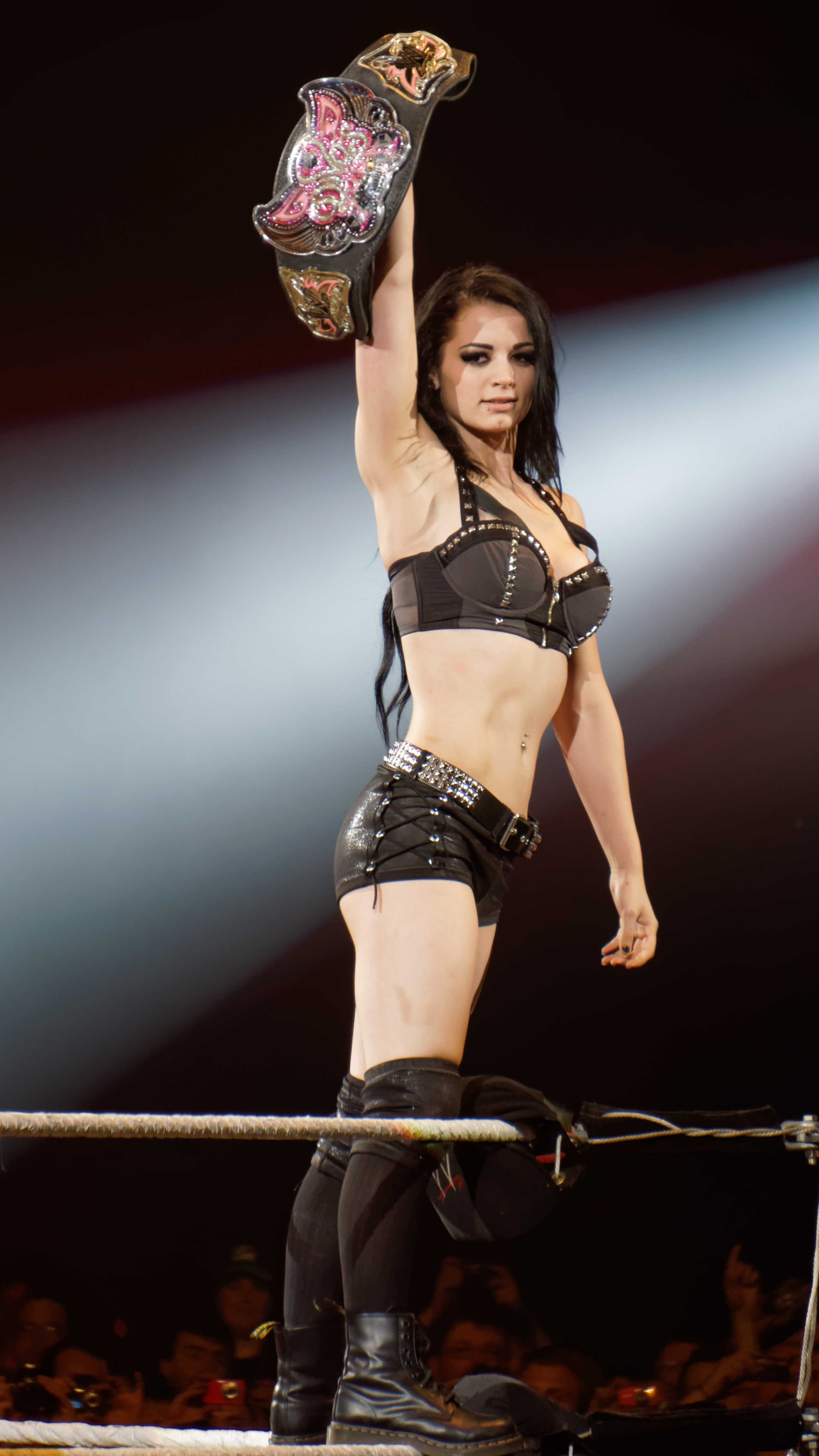 Paige posing with the WWE Divas Championship at a WWE live event on May 22, 2014.